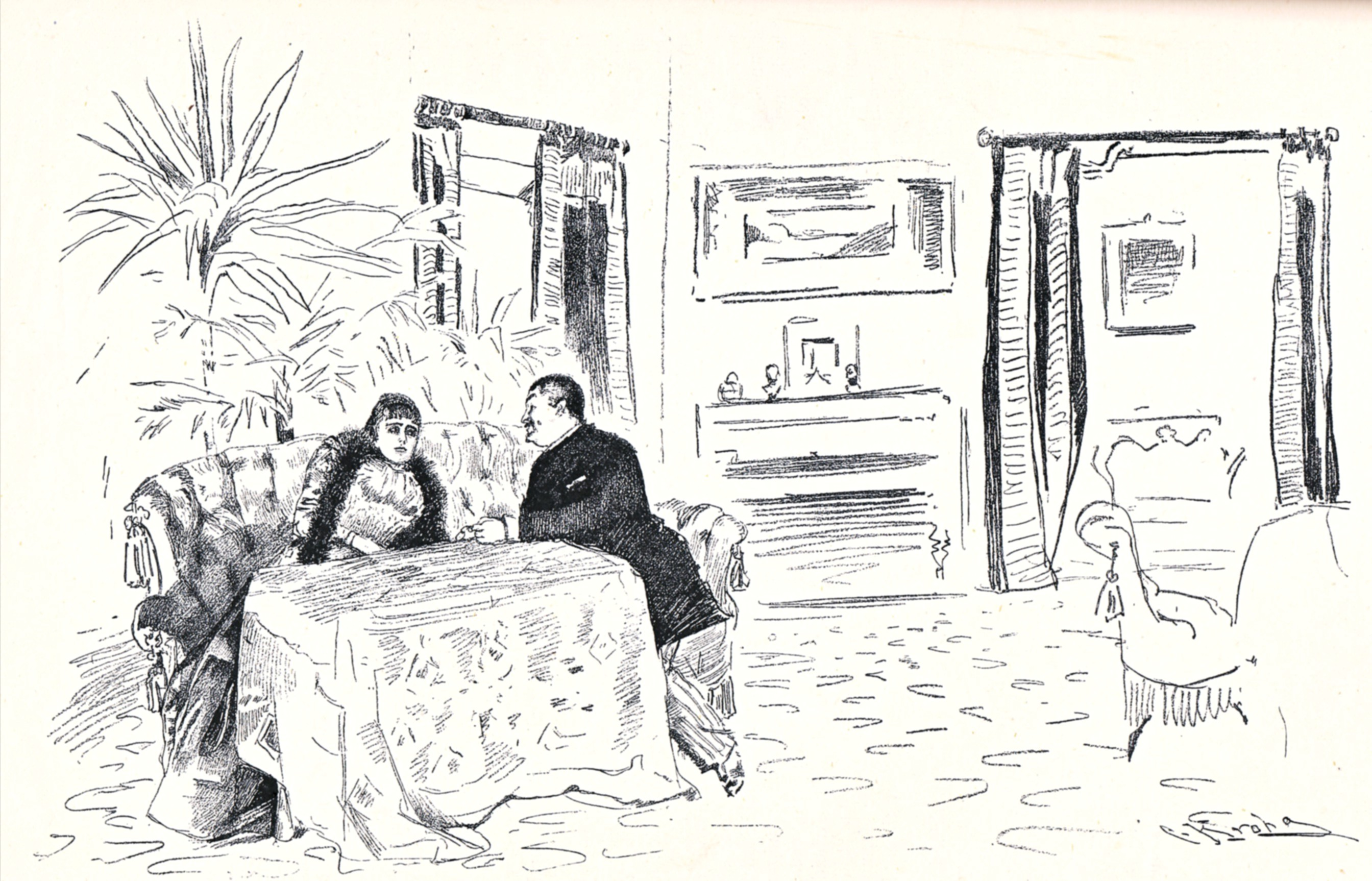 Illustration by Christian Krohg (1852–1925) of Henrik Ibsen's play Hedda Gabler as staged at Kristiania Theater.